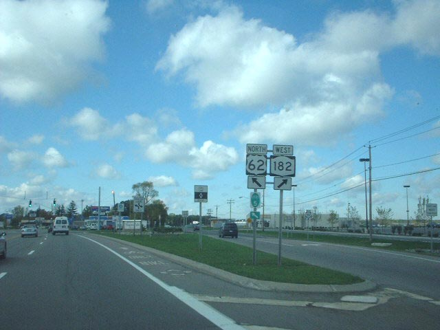 US 62 northbound at the fork with NY 182 (Porter Street)